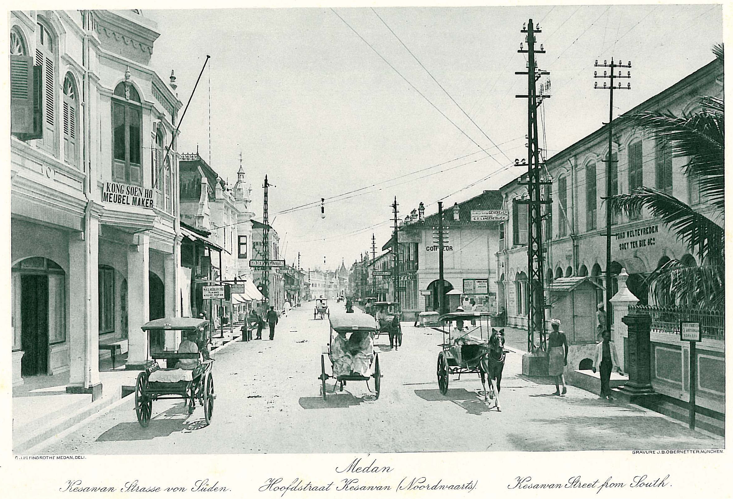 Historical postcard of Indonesia